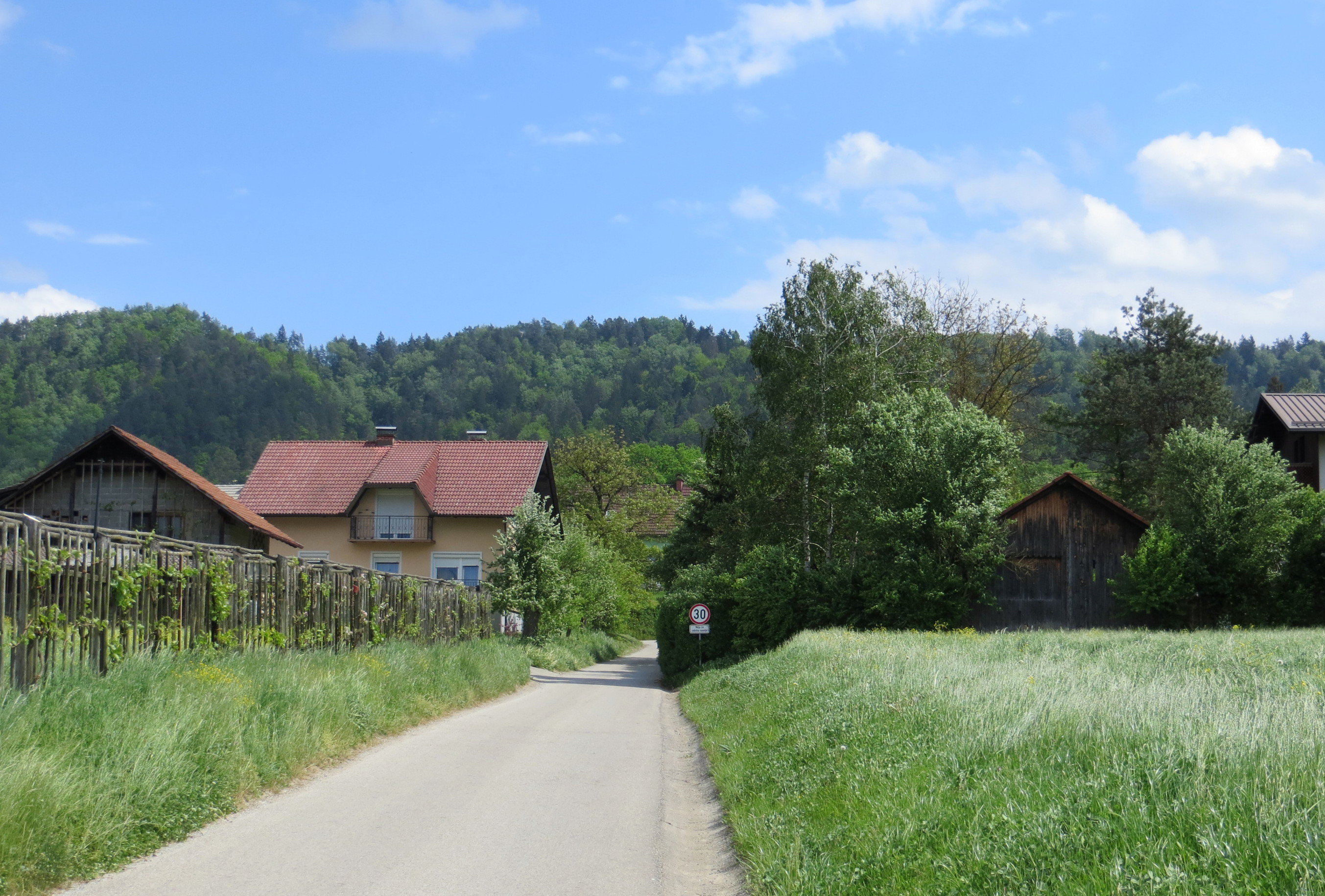 Tenetiše, Municipality of Litija, Slovenia